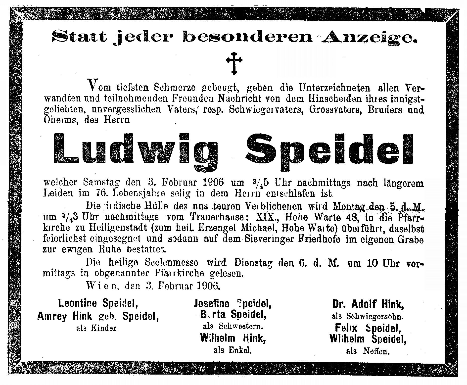 death notice of Ludwig Speidel (1830–1906), German writer, music, theater and literary critic.